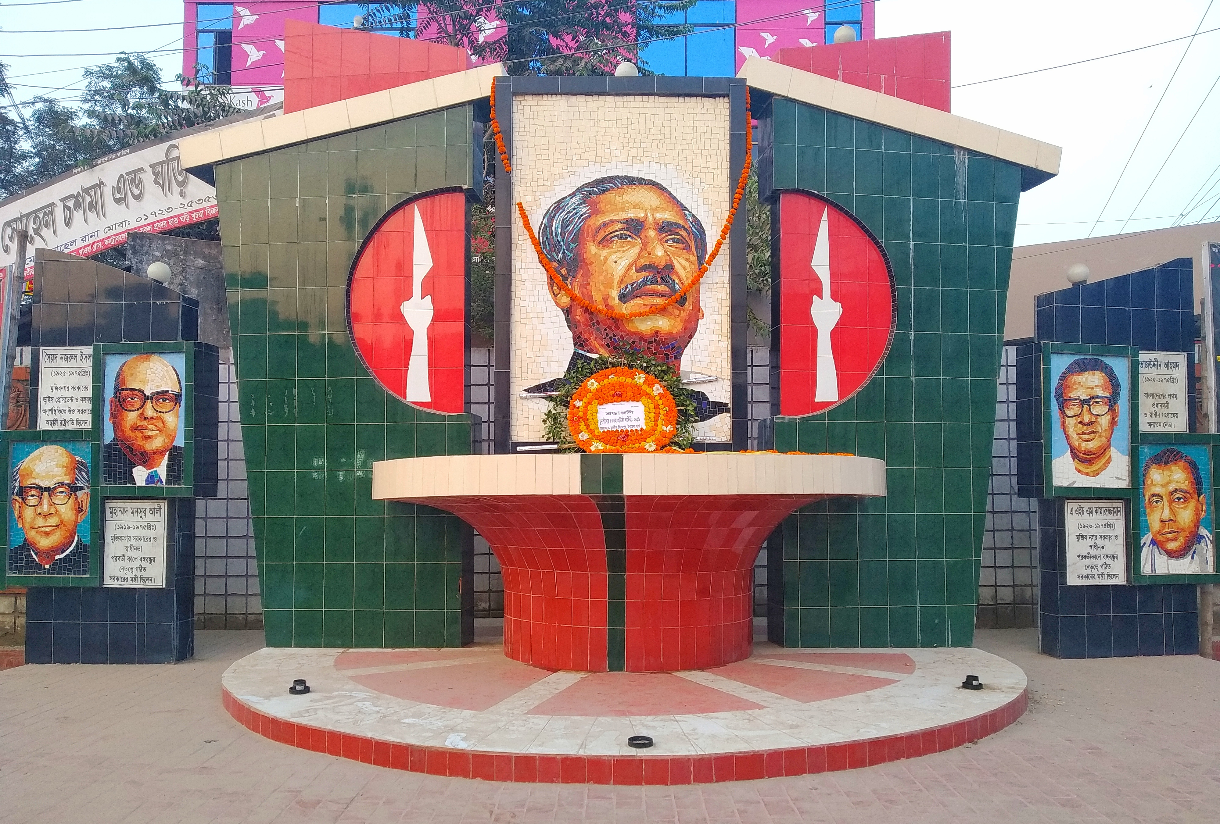 At Birampur main Bazar it is situated as a remembrance of Bangabandhu